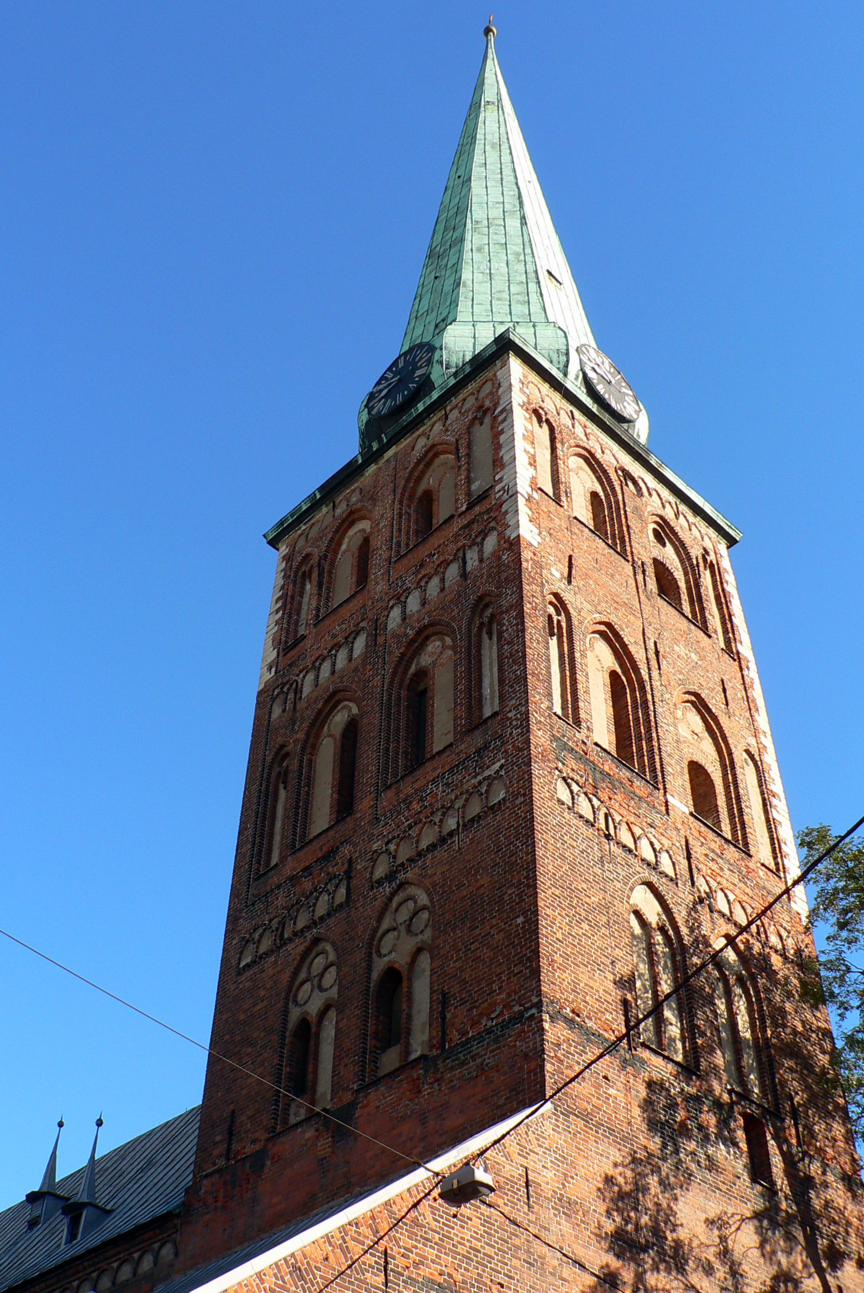 Tower of St. James's Cathedral in Riga, Latvia.